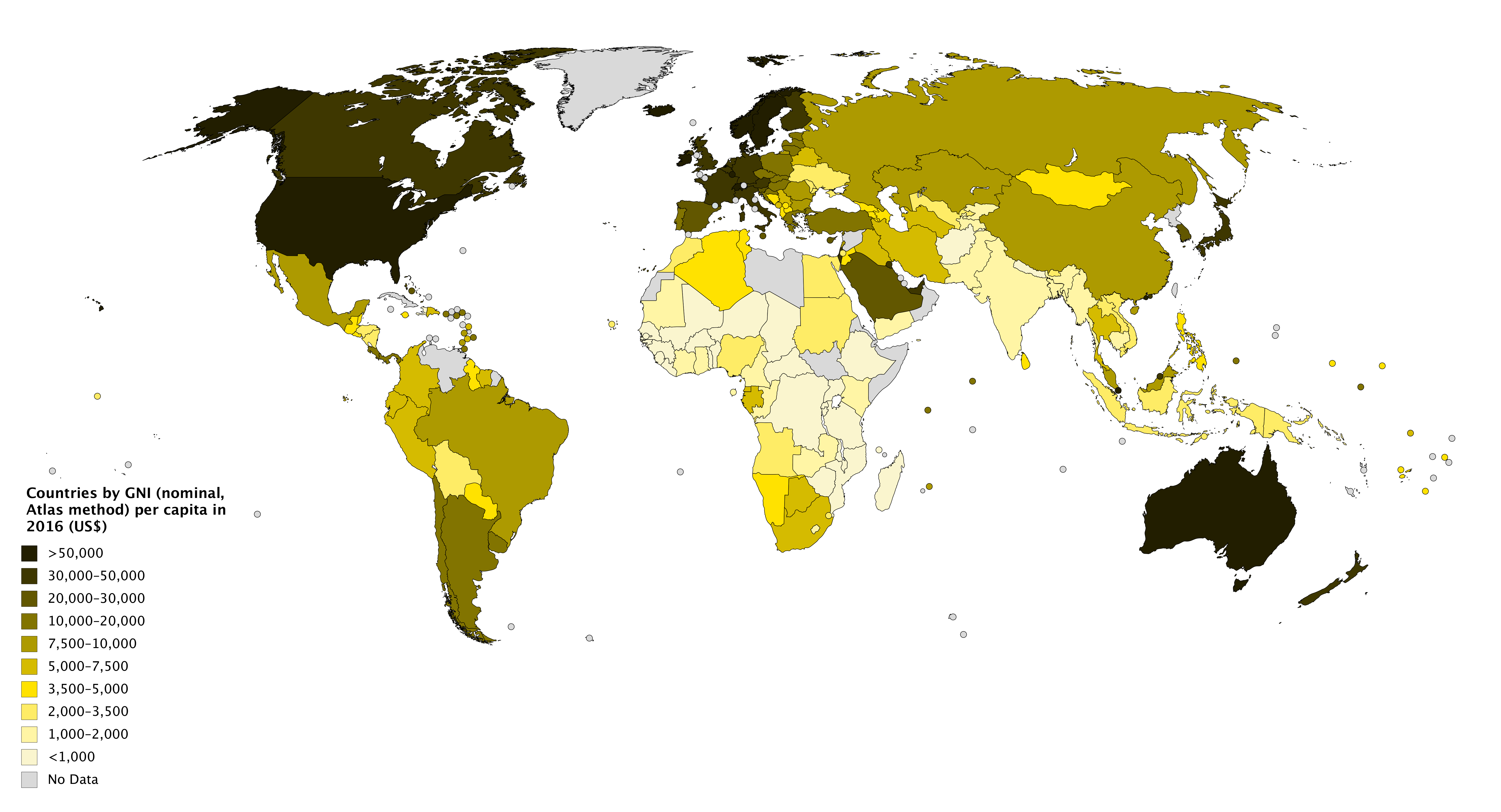 A choropleth world map showing gross national income per capita at nominal values in 2016, according to the Atlas method, based on data from the World Bank.